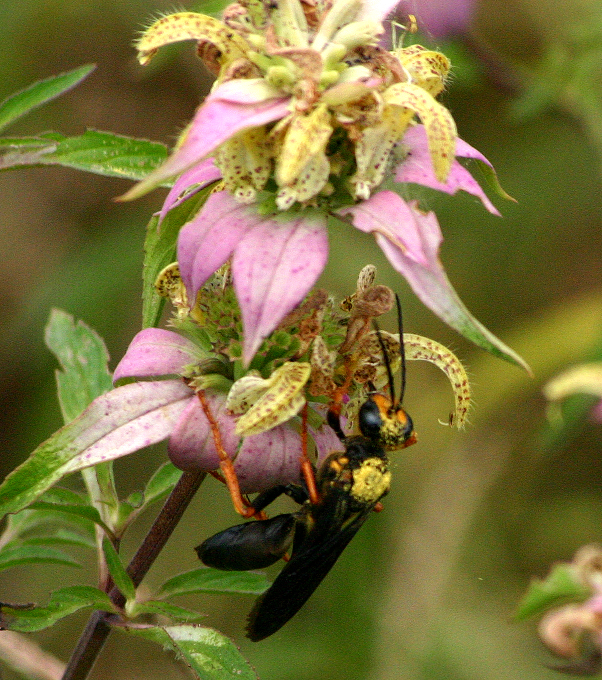 Unidentified wasp species pollinating Monarda. Pollen is adhering around wasp's head and thorax.